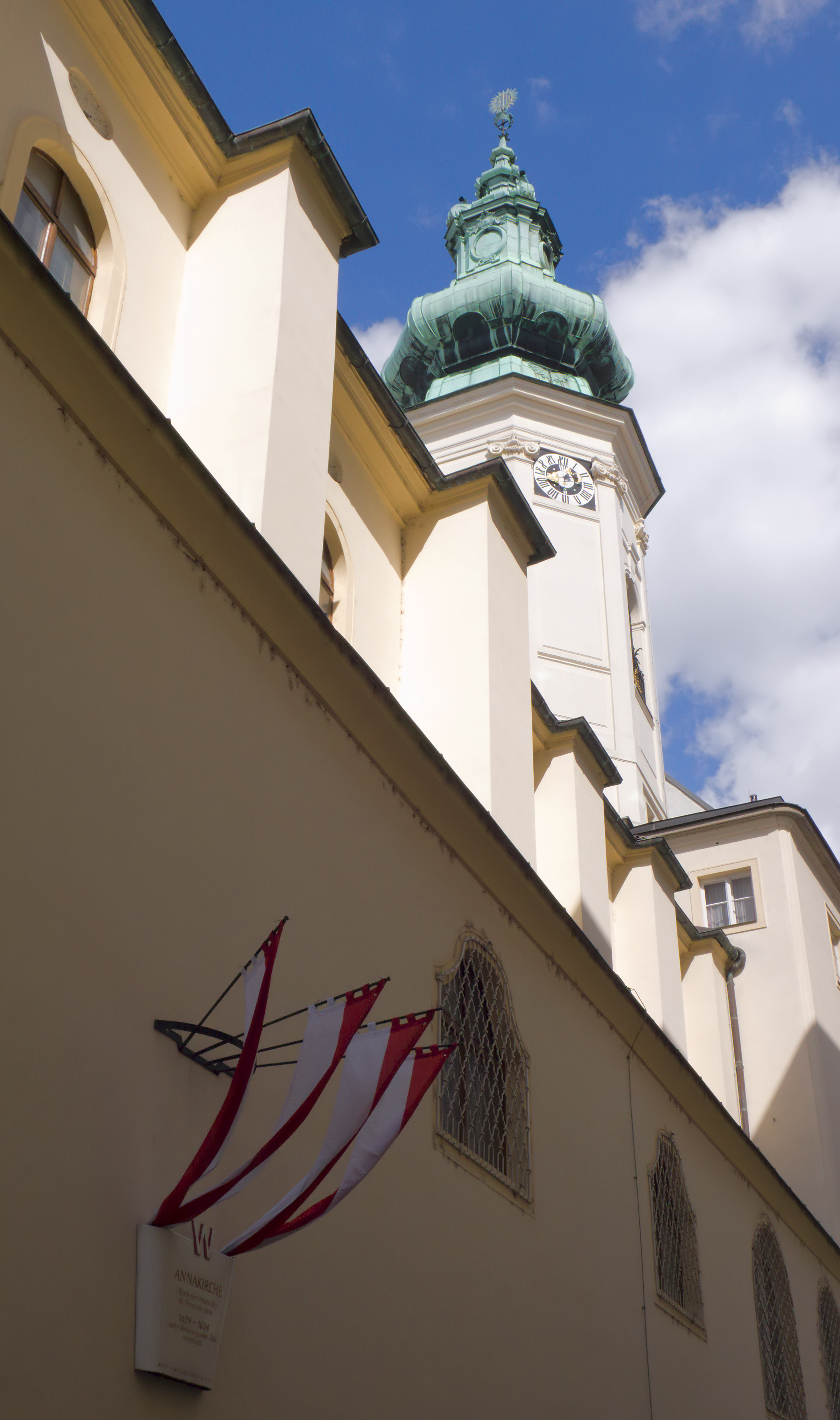 Annagasse in Vienna Inner City, Haus Nr.3b Sankt Anna(Wien)